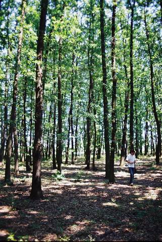 High grounds above the town Ub, Central Serbia. Hungarian-Turkey oak forest with some Common oak, typical of this part of Serbia. Turkey oak dominates the other two oaks, other tree species absent, most likely due to human influence.